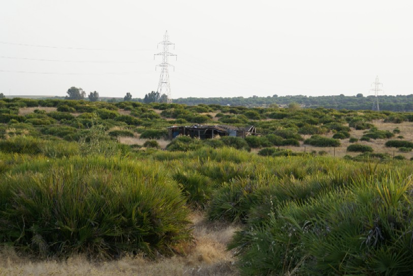 Large patch of C. humilis in an humanized area of SW Spain